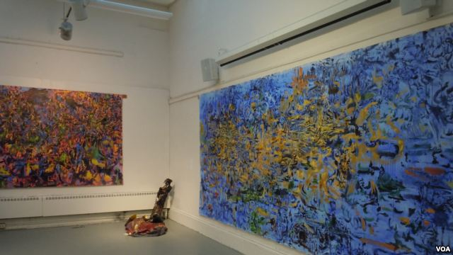 Paintings by graduating student Andrew Tanner on display at the Maryland Institute College of Art in Baltimore.